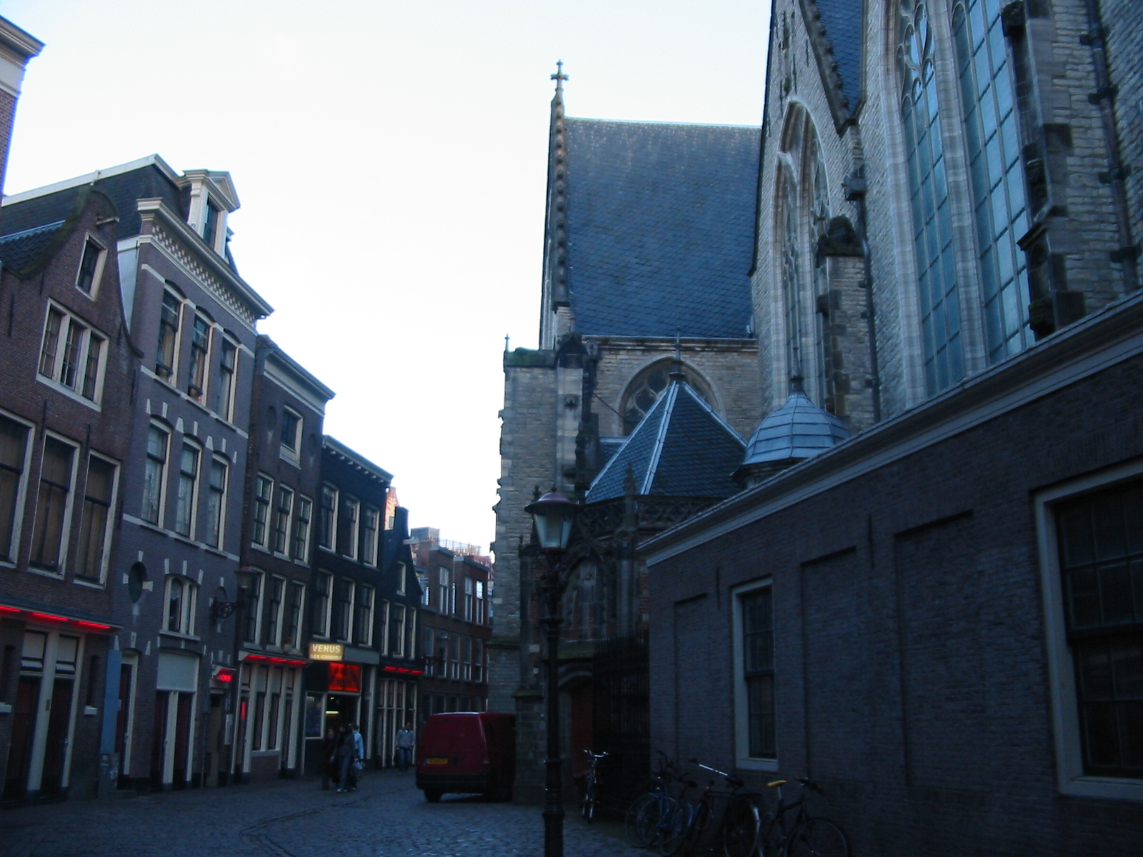 Prostitute's windows in Amsterdam's De Wallen red light district, specifically on Oudekerksplein behind the church Oude Kerk.Old Church + Old Profession